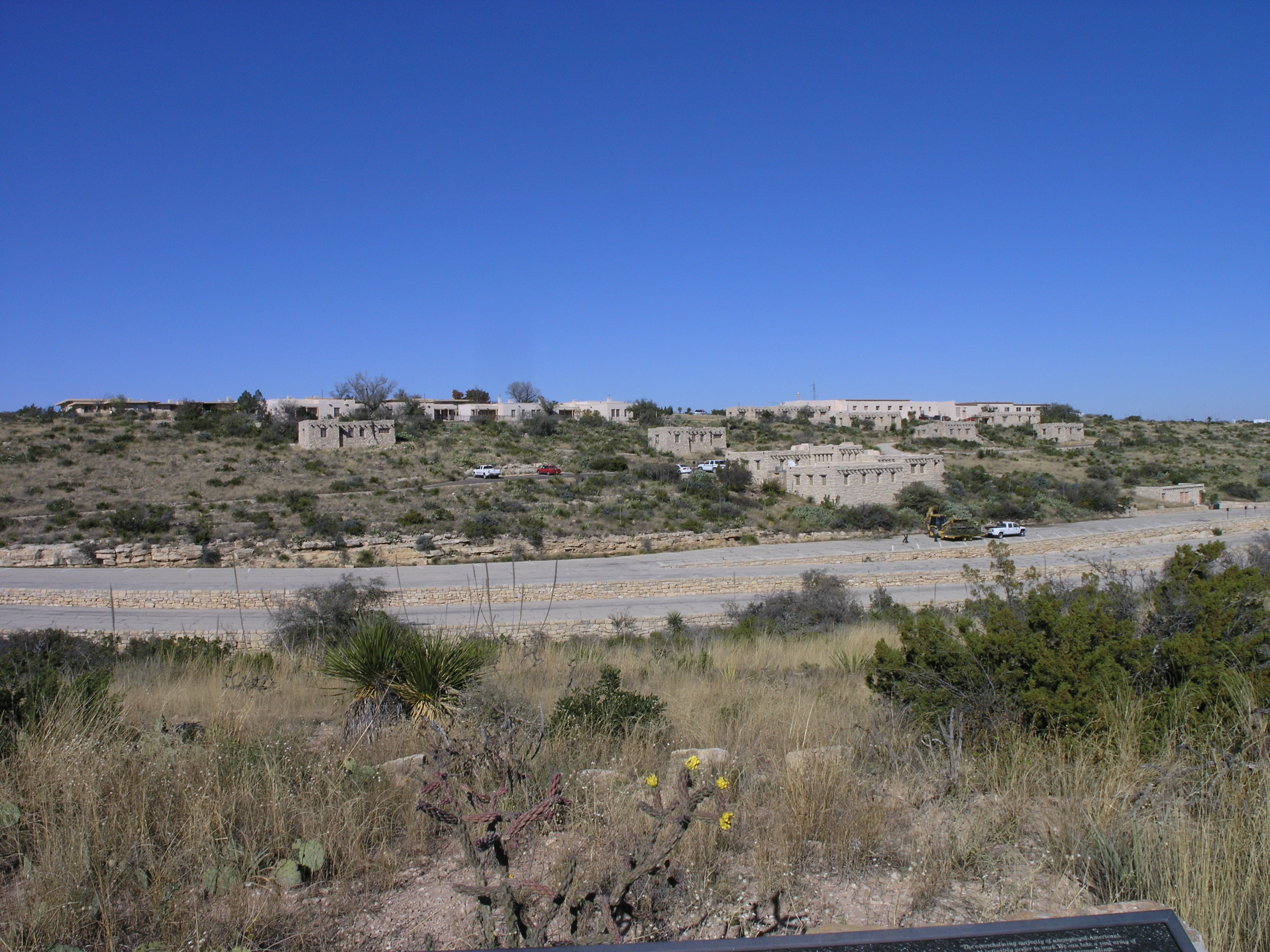 1942 buildings by the Civilian Conservation Corps (CCC) within the The Caverns Historic District — in Carlsbad Caverns National Park, New Mexico. The adobe triplex residences (Multiple Dwelling Unit 1 and 2, NPS Buildings 25-A/B/C and 28-A/B/C) are on the National Register of Historic Places in Carlsbad Caverns National Park.